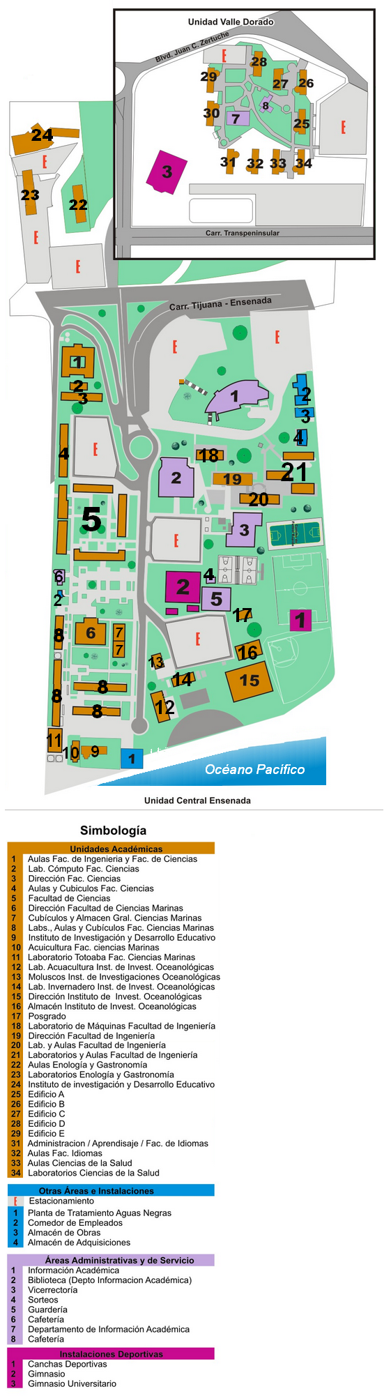 Campus Map of the UABC Ensenada and Valle Dorado showing its buildings and their designation.